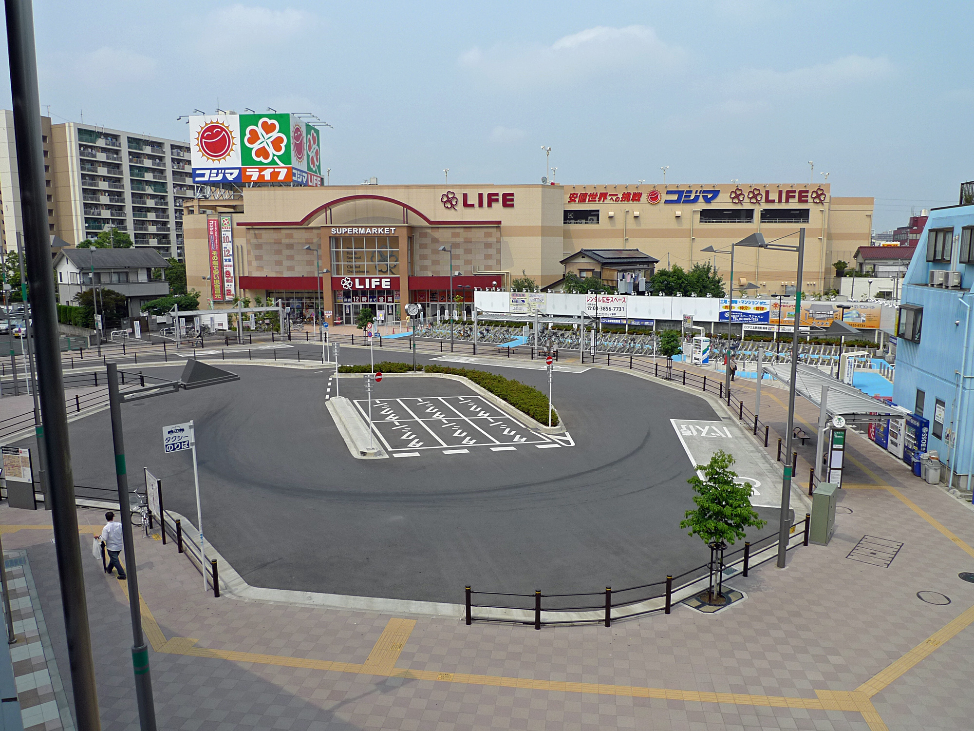 Kohoku station plaza,Nippori-Toneri Liner.